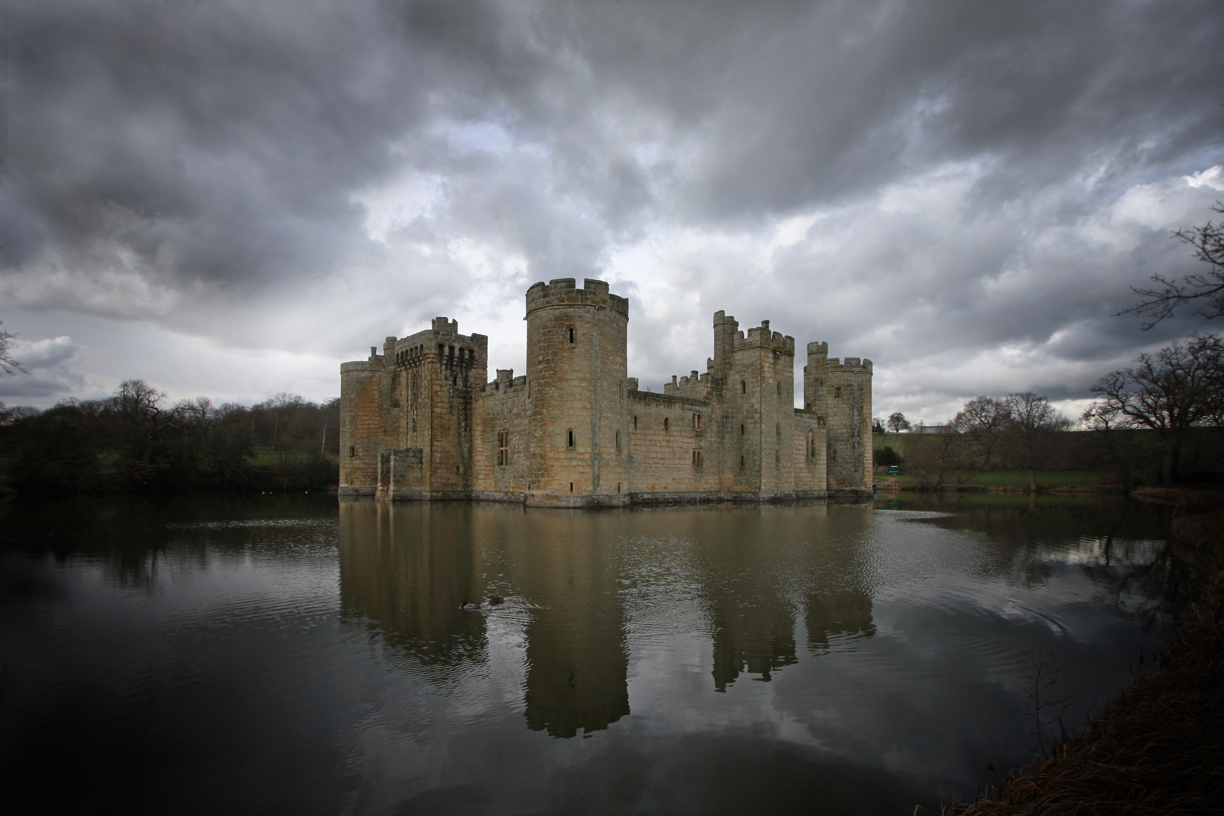 Bodiam Castle south east corner